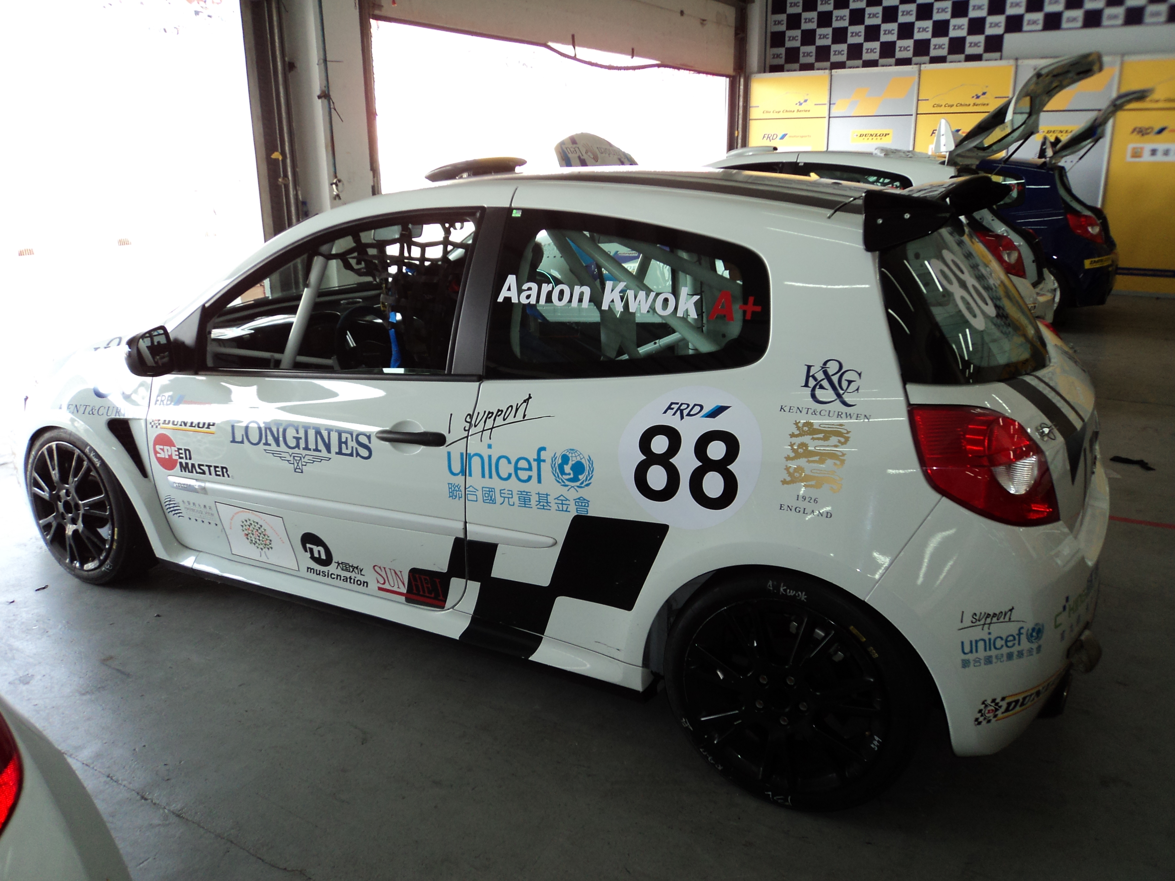 Aaron Kwok's 2010 Renault Clio race car for the Clio Cup China race at Zhuhai International Circuit.